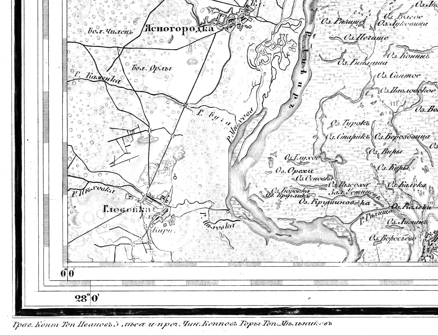 Hlebowka village on the topographic map of the Russian Empire (Shubert's map), R21L09, 1868